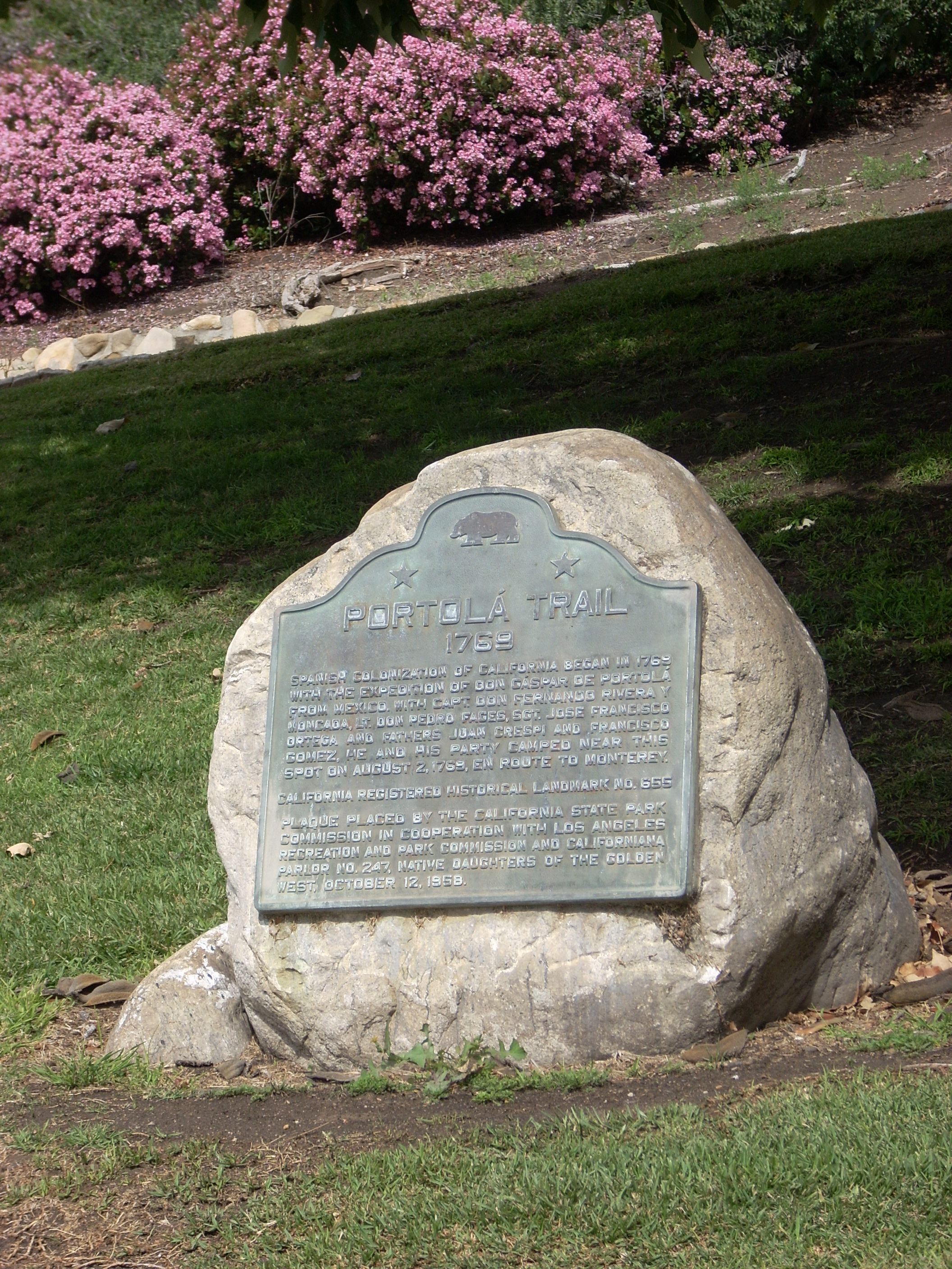 Portola Trail commemorative rock in Elysian Park near the North Broadway-Buena Vista St. Bridge.